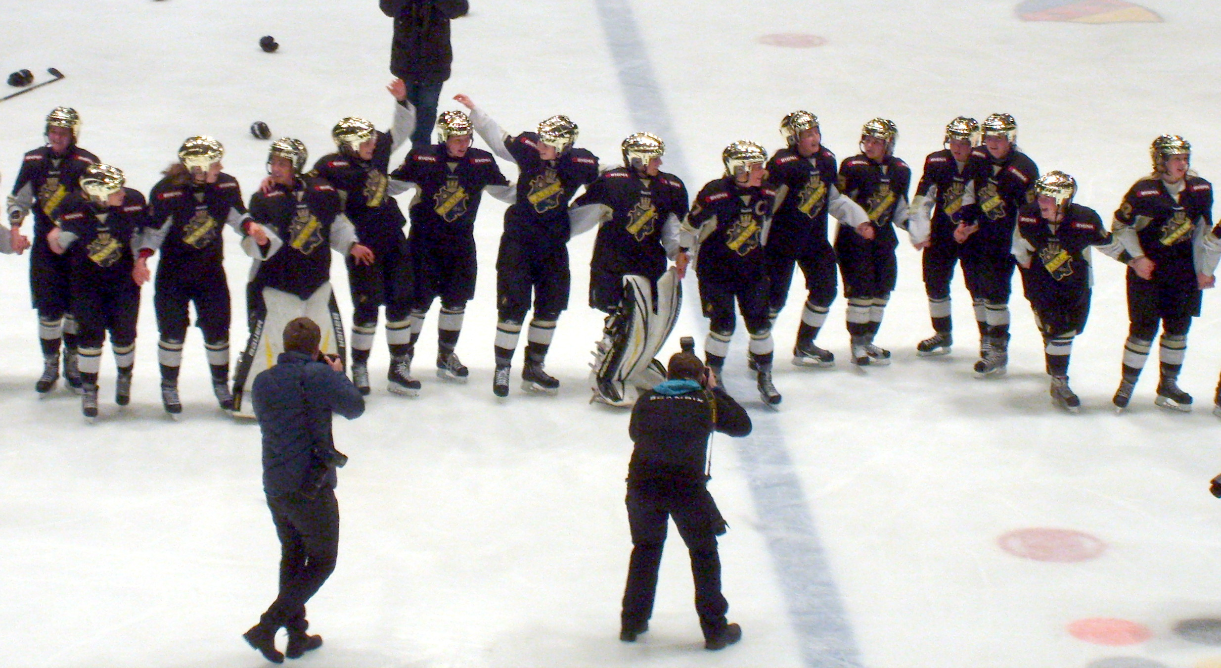 AIK Ishockey Damer win the 2012-2013 Swedish women's national championship at the Johanneshovs isstadion.